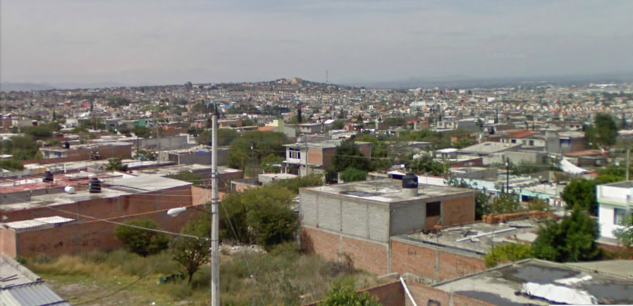 La Zona Oriente es una de las zonas mas grandes e importantes de la Ciudad